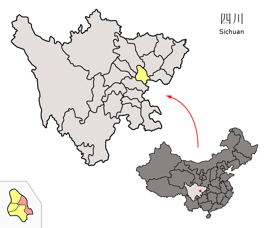 Location of Pengxi County (pink) and Suining Prefecture (yellow) within Sichuan province of China Map drawn in october 2007 using various sources, mainly : Sichuan province administrative regions GIS data: 1:1M, County level, 1990 Sichuan Counties map from